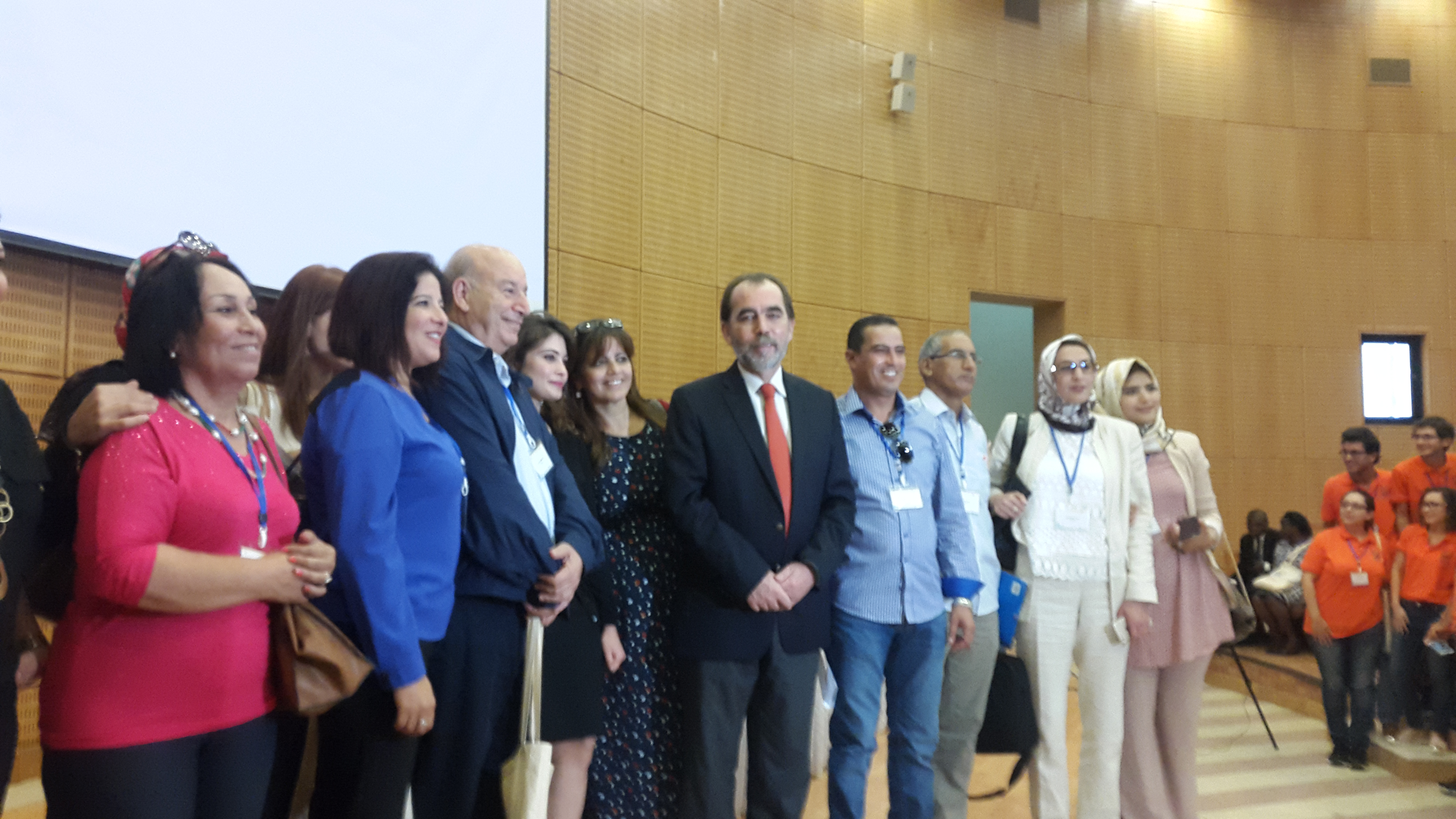 Said Aidi, Minister of health with the organisers of the international conference of Palliative care in Medicine University in Tunis